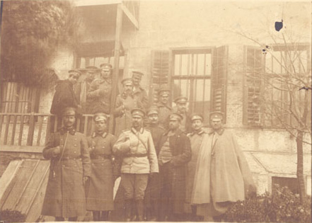 Officers from 48th Infantry Regiment (Bulgaria) in Dobruja (World War I, 1917) - cropped